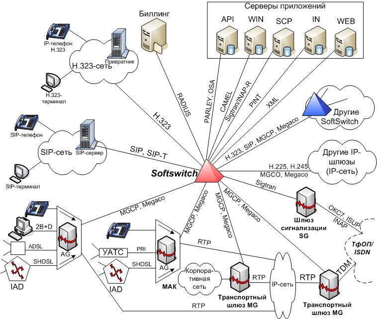 Softswitch's scheme